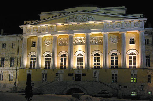 Old headquarters of the Moscow University (1782-93).